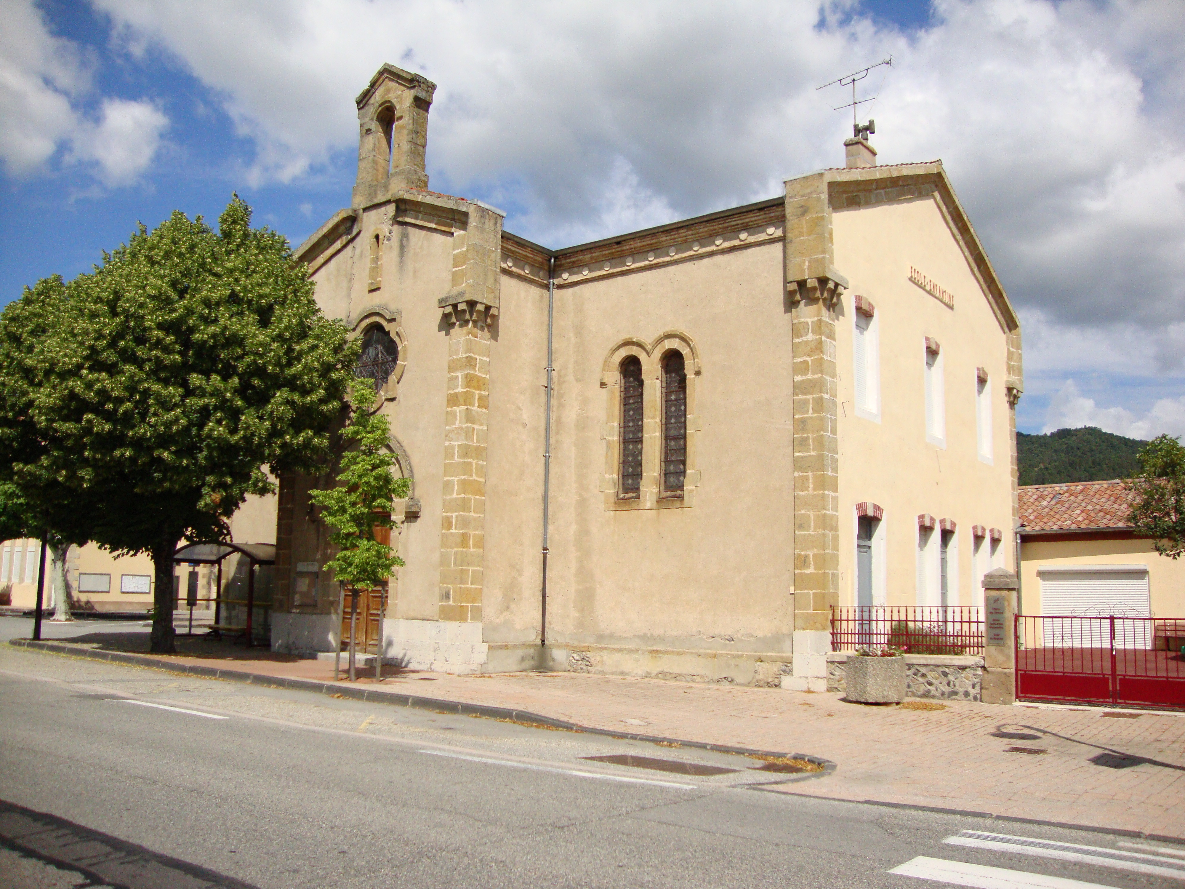 St.Julien-en-Saint-Alban (Ardèche, Fr) temple-école